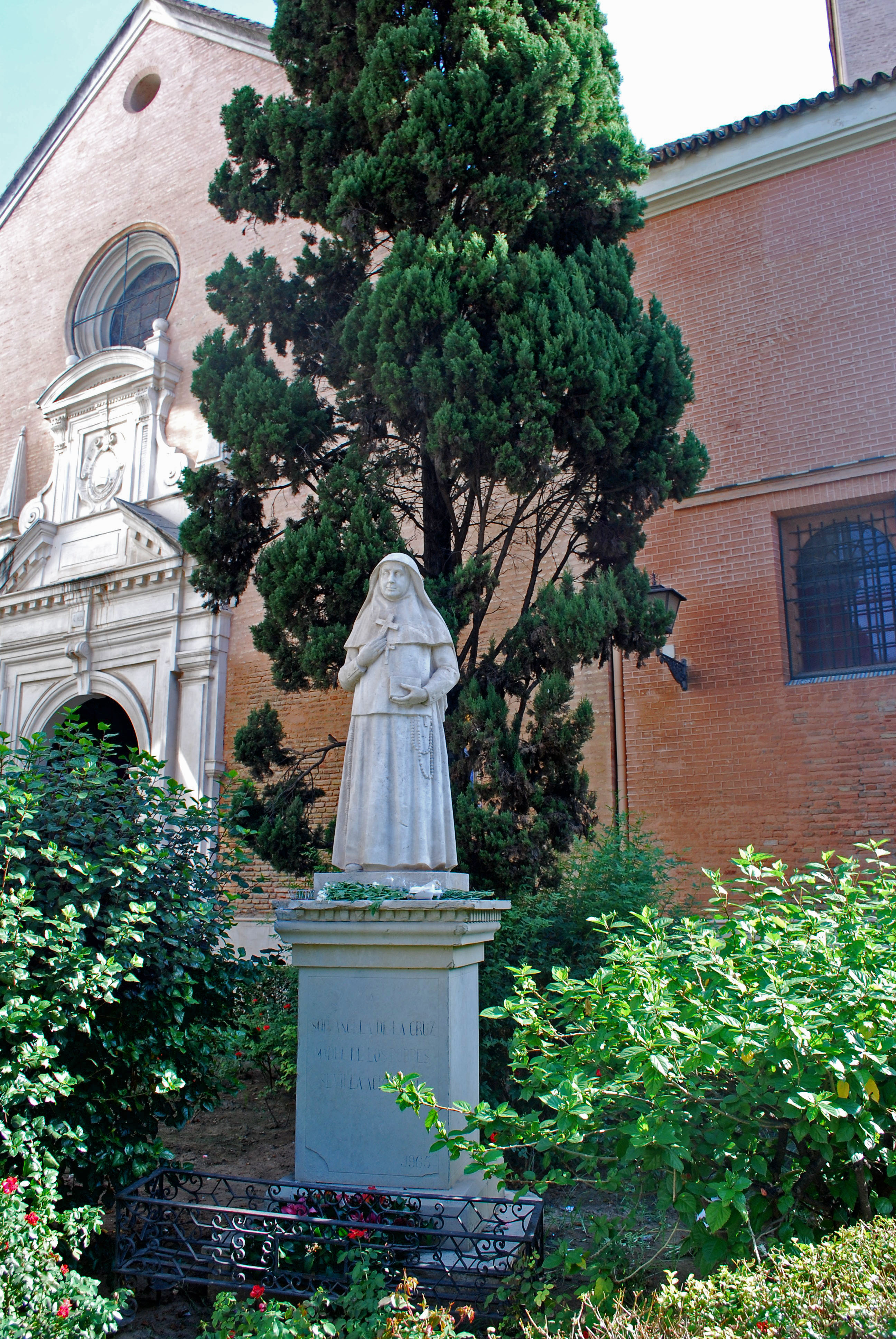 Saint Ángela de la Cruz